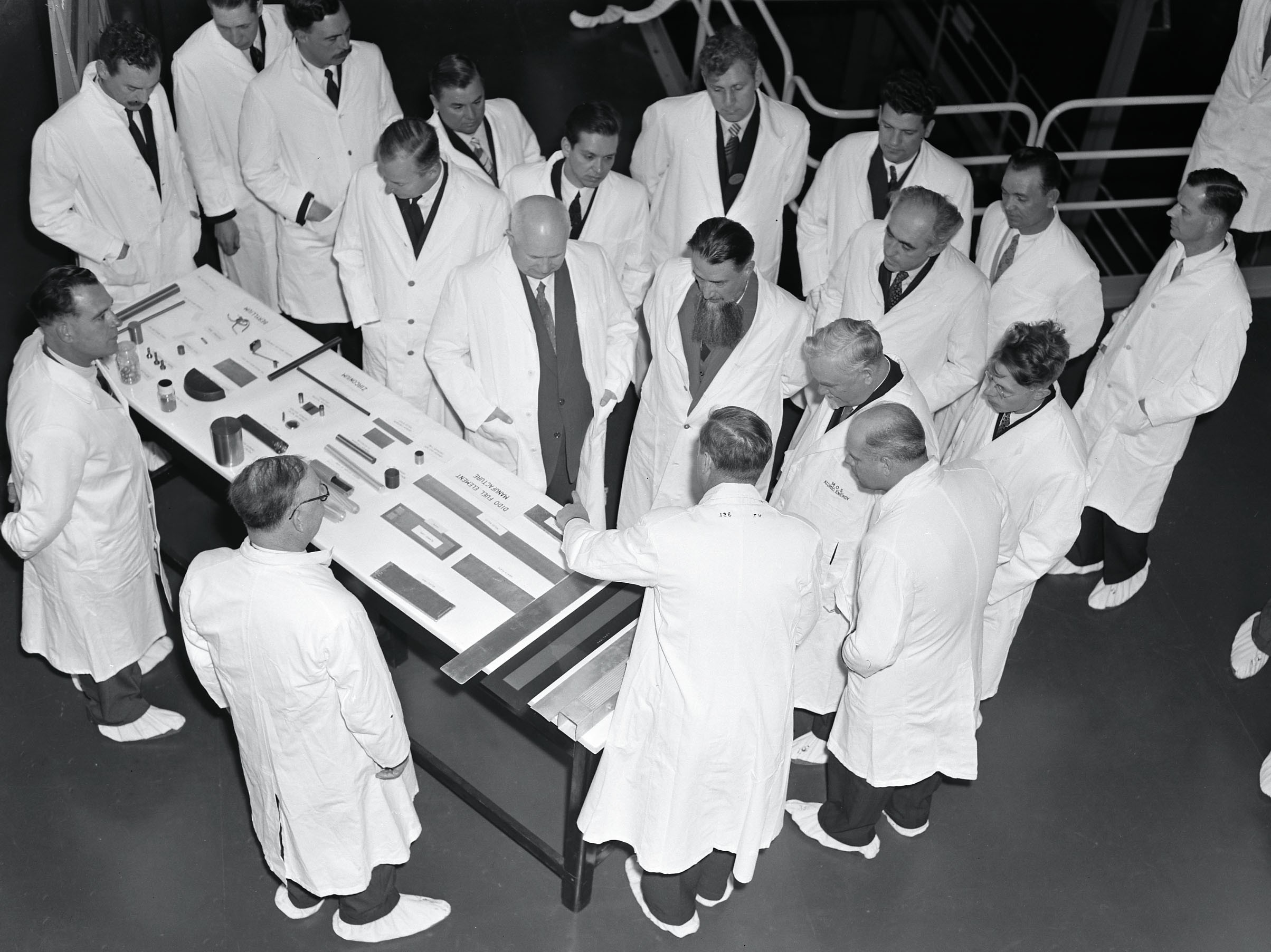 To the great surprise of the nuclear energy world, during a state visit by Khrushchev and Bulganin in 1956, Soviet physicist Igor Kurchatov offered to give a talk on their experiments in nuclear fusion. The event opened the way for the declassification of fusion research, and the presentation of many of these projects at the Second Atoms for Peace conference in September 1958. In the image, Khrushchev can be seen standing near the middle of the image. To his left (right in the image) is Kurchatov, with the prominent beard. To his left (right and down in the image is Bulganin. Cockroft, with glasses, stands across from them while a presenter points to mockups of various materials being tested in the newly-opened DIDO reactor.